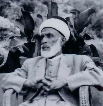 Sheik Toufic al-Hibri.